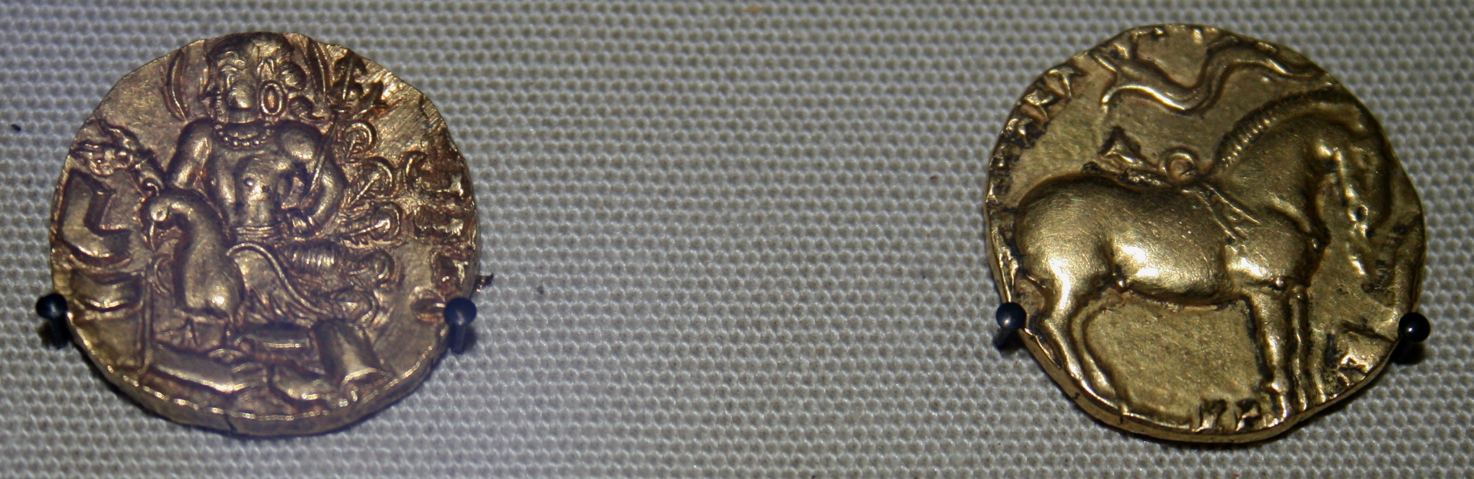 Gold coin of Kumaragupta 1. In the British Museum.